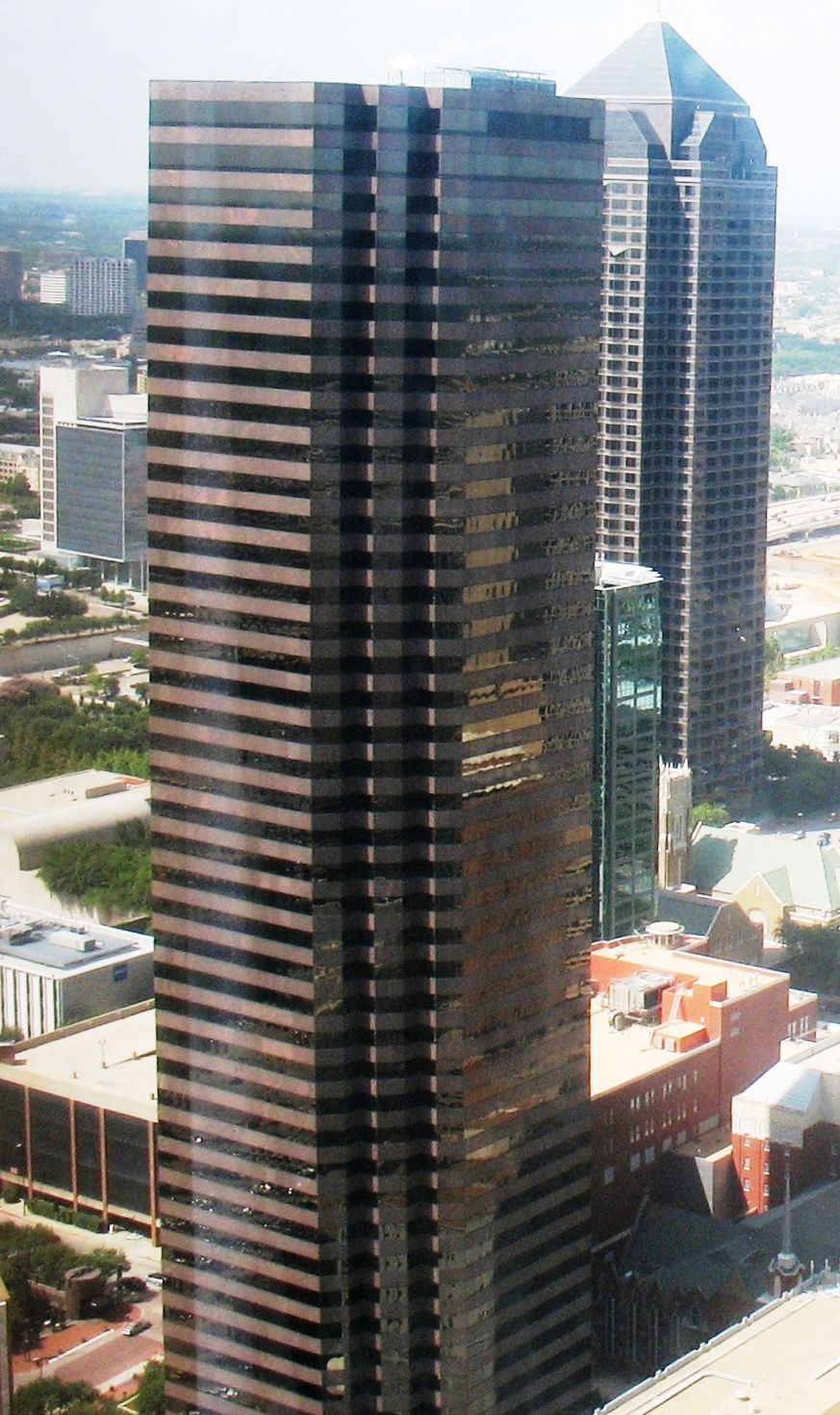 Dallas, Texas: Ross Tower, formerly known as Lincoln Plaza, taken from nearby Thanksgiving Tower. It formerly housed the headquarters of Halliburton